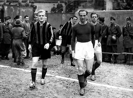 Kjell Rosén (right) met Nacka Skoglund (left) during his years in Torino when Skoglund played for Inter. Notice the mourning band in memory of the Superga air disaster 1949.